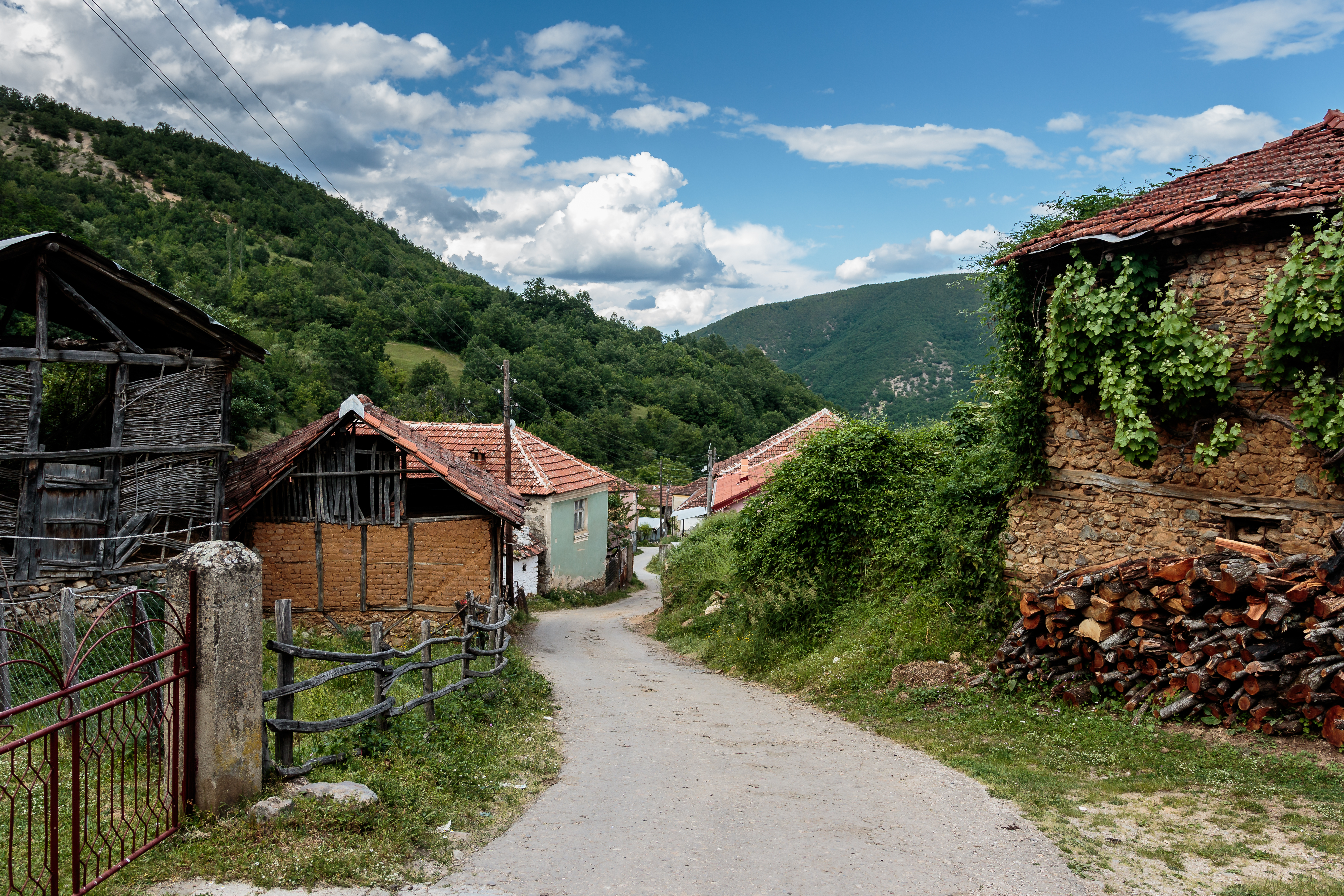 View of the village Virovo